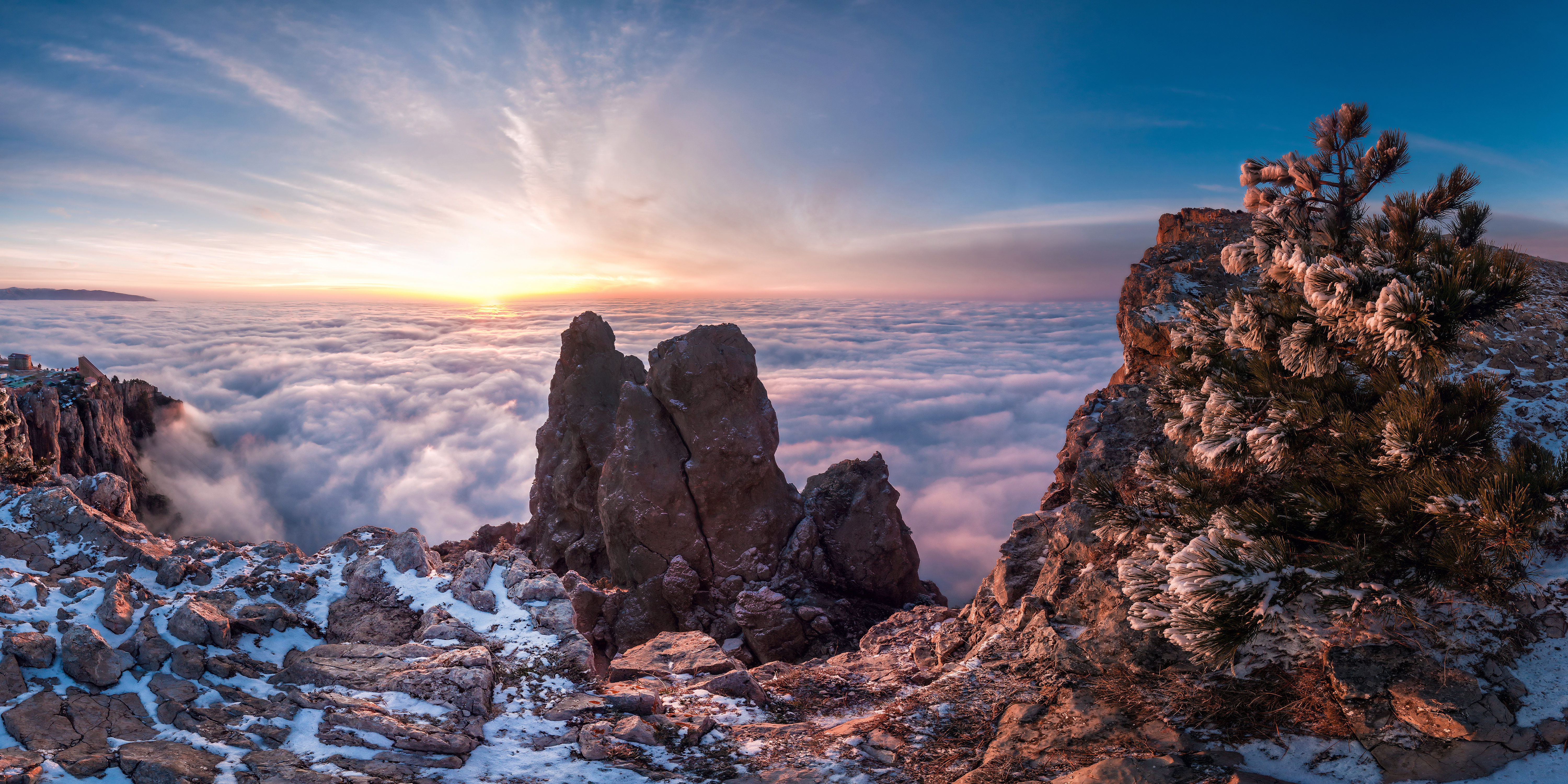 Panorama of the winter dawn on Ai-Petri. Autonomous Republic of Crimea.